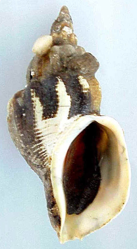 apertural view of the shell of Beringius kenicottii